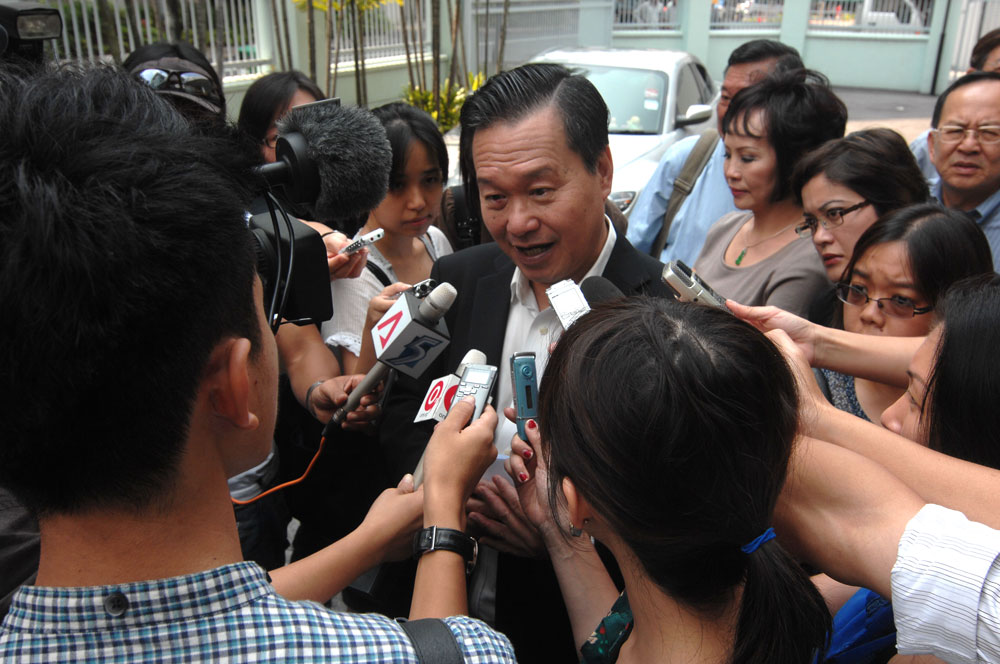 Tan Kin Lian speaking to the media at the Elections Department after submitting the forms required for applying to be a candidate in the 2011 presidential election.